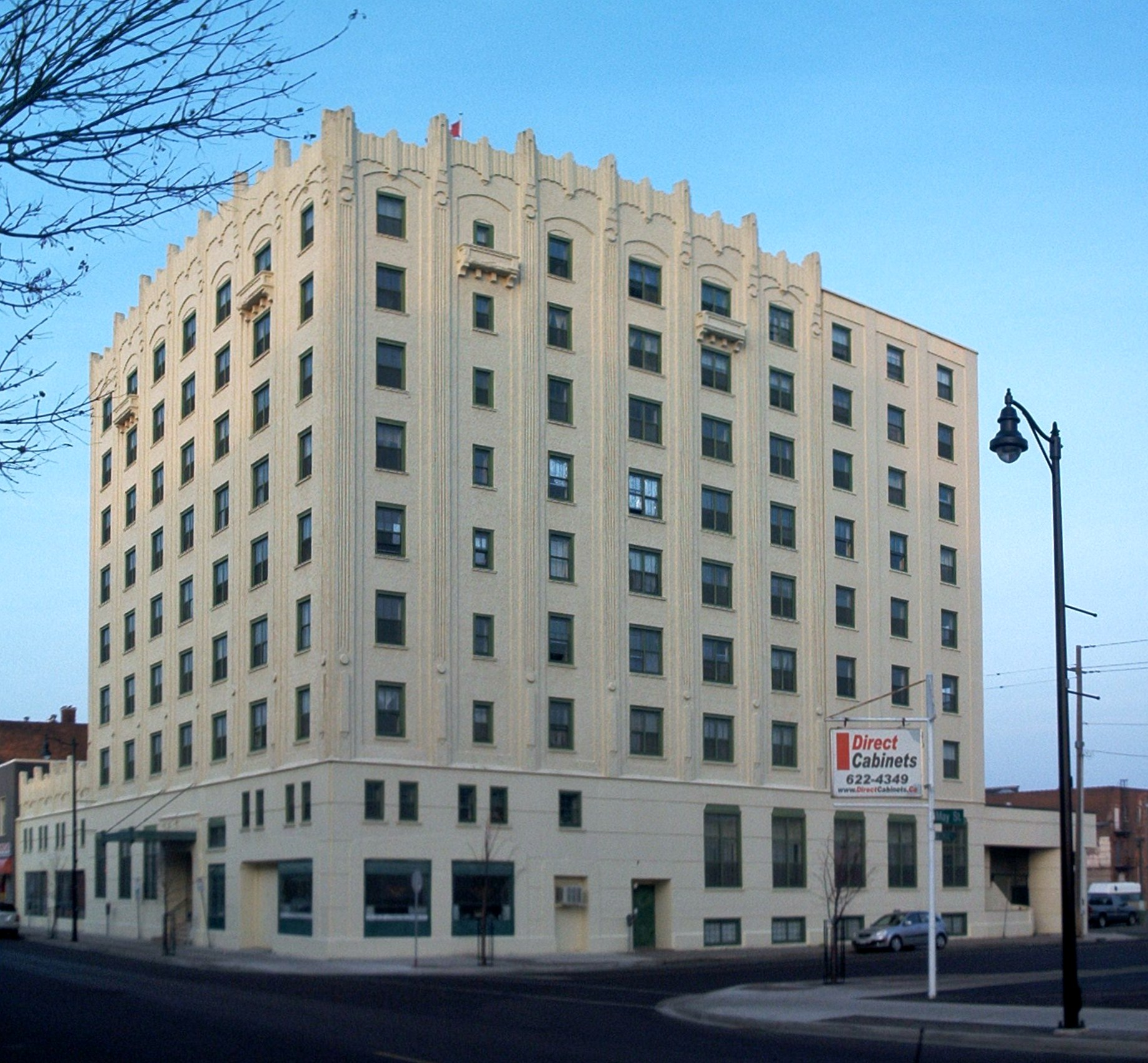 The building in